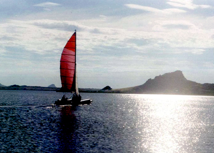 Kolyvan lake. Sail boat